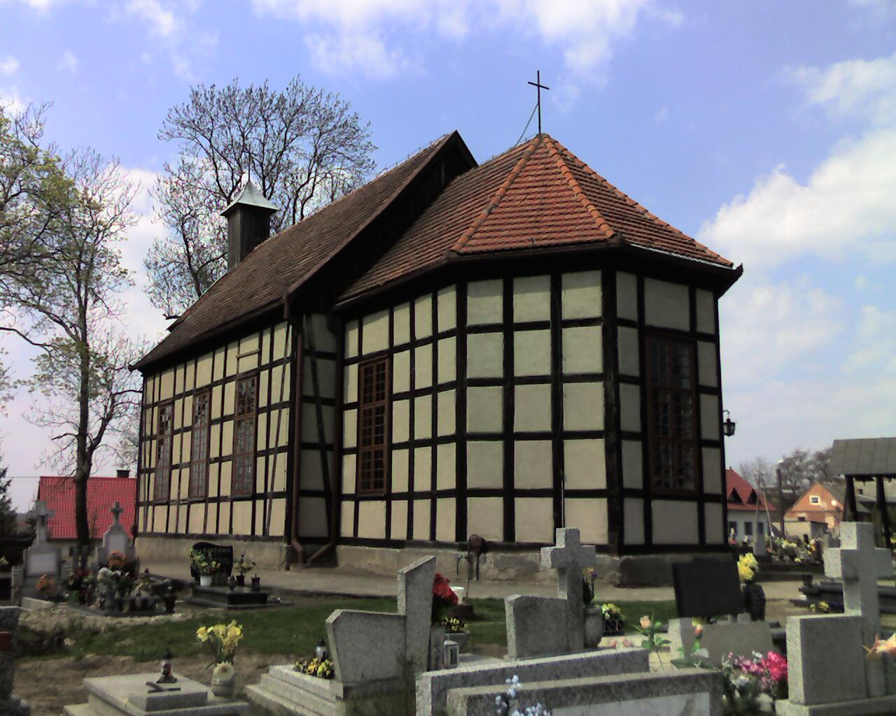 The church in Duża Cerkwica, Poland.